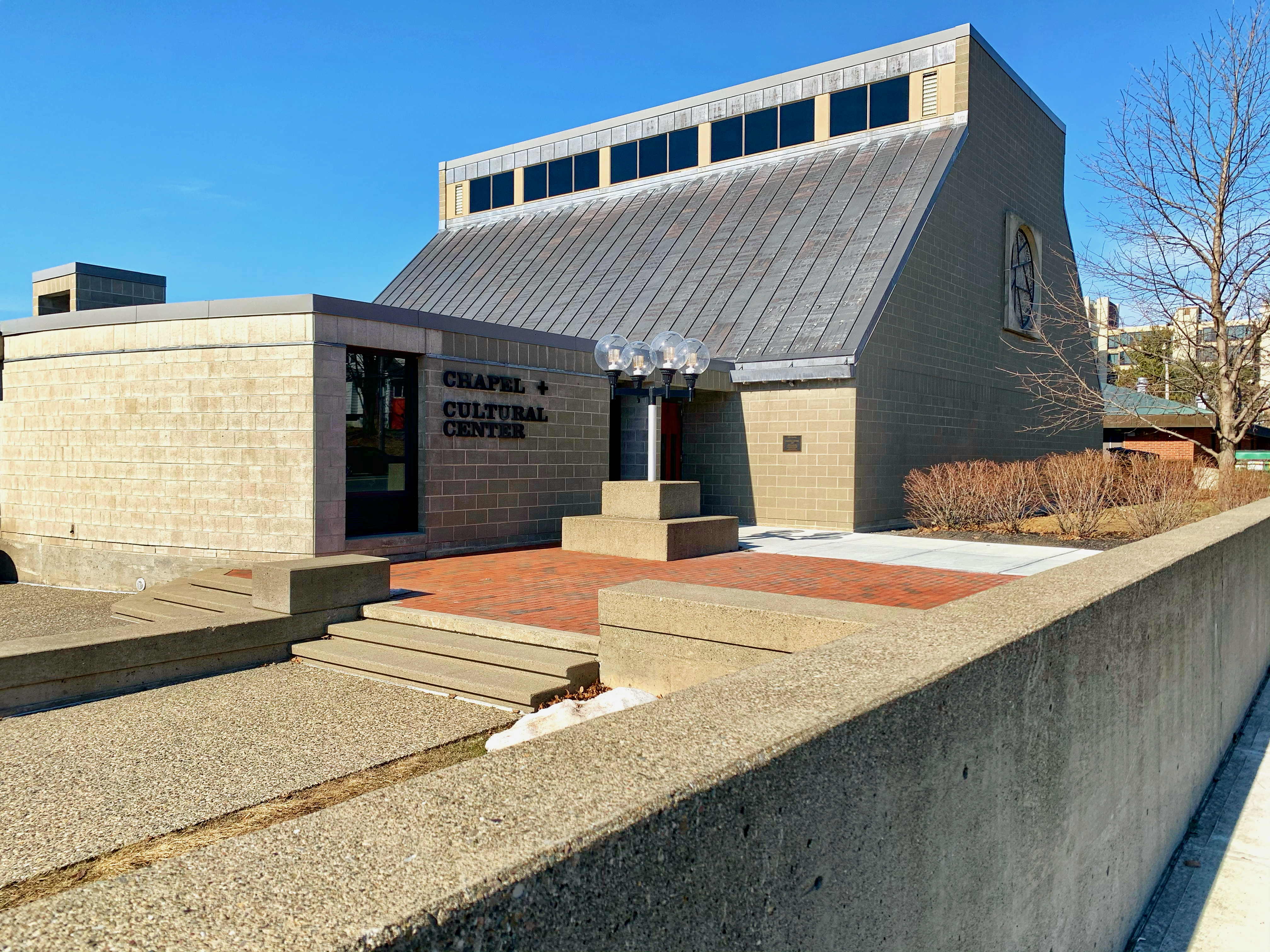 Southeast view of Rensselaer Polytechnic Institute's Chapel and Multicultural Center in Troy, New York, United States